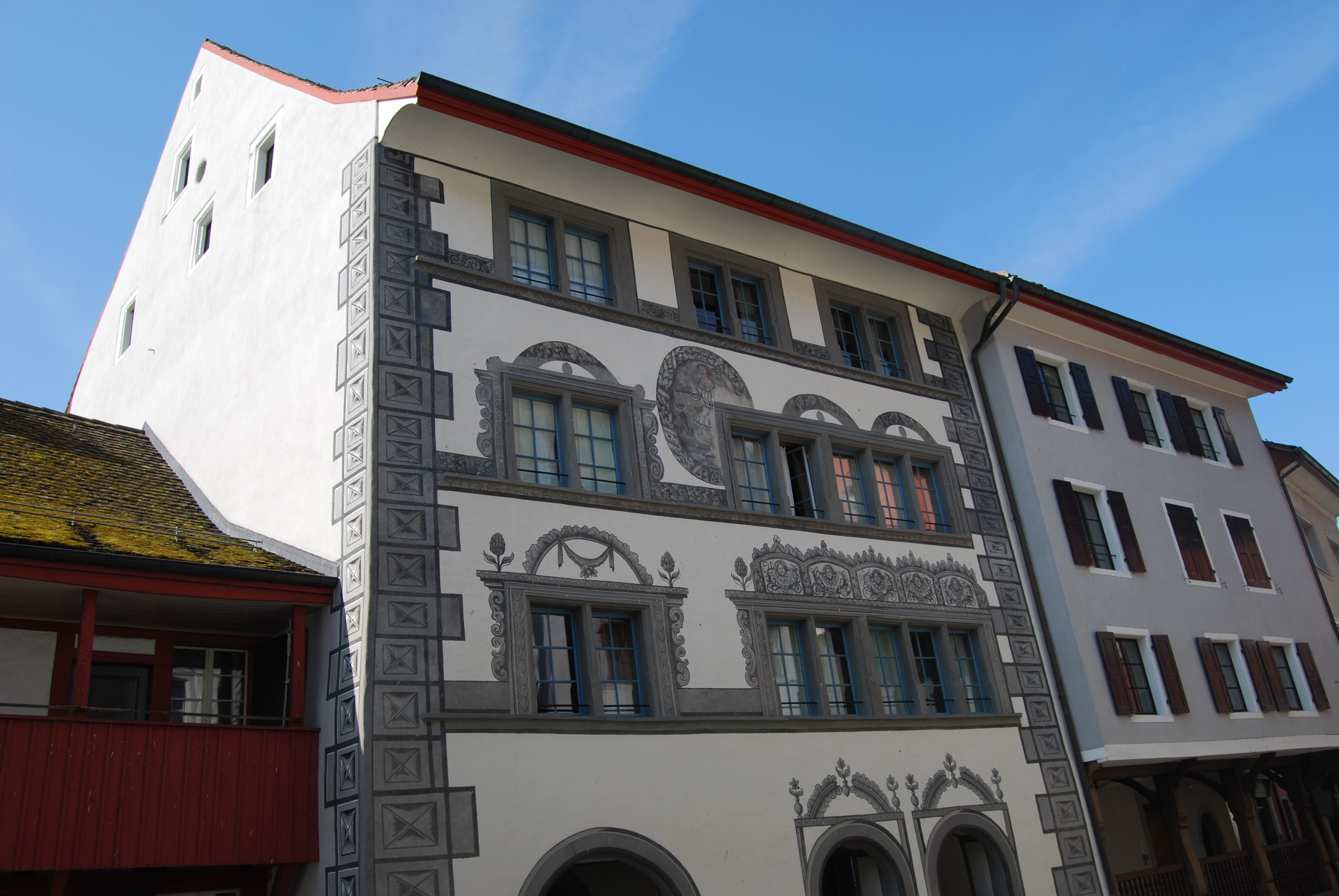 Eglisau, canton of Zürich, Switzerland